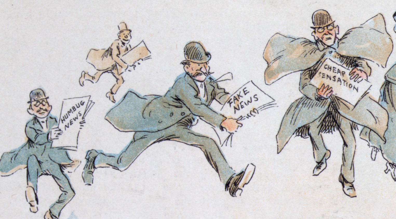 A man with "fake news" rushing to the printing press.